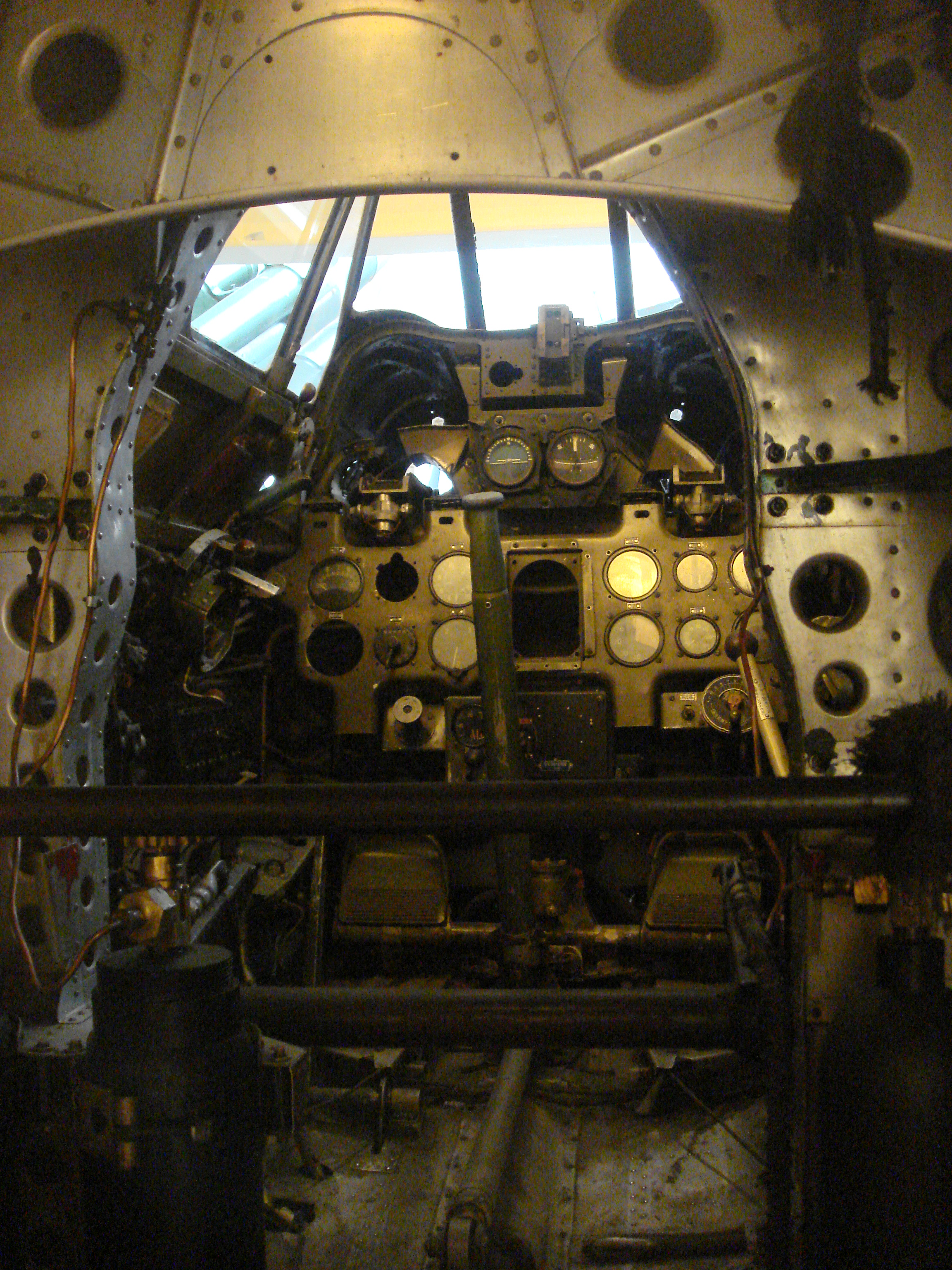 Cockpit of a Mitsubishi A6M5-52 Zero